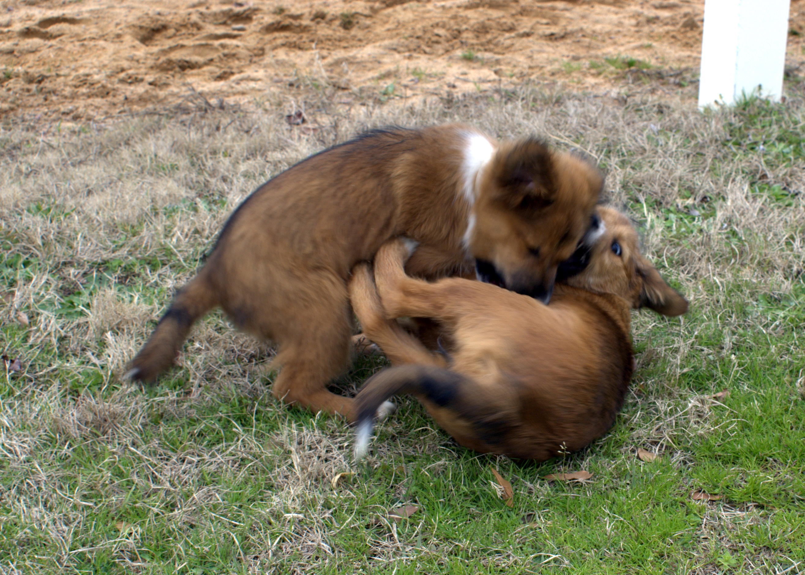 a fighting game